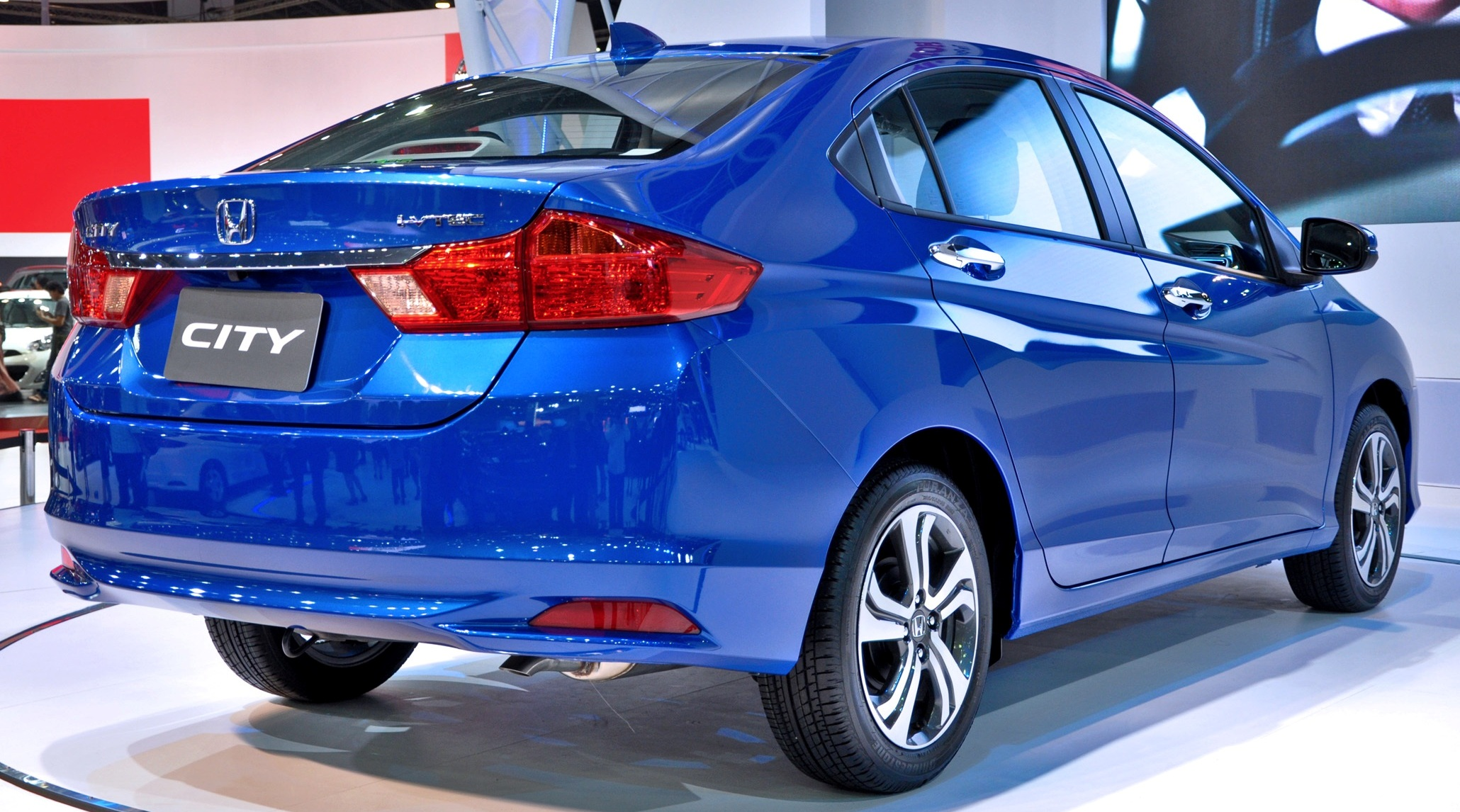 2014 Honda City at The 35th Bangkok International Motor Show.